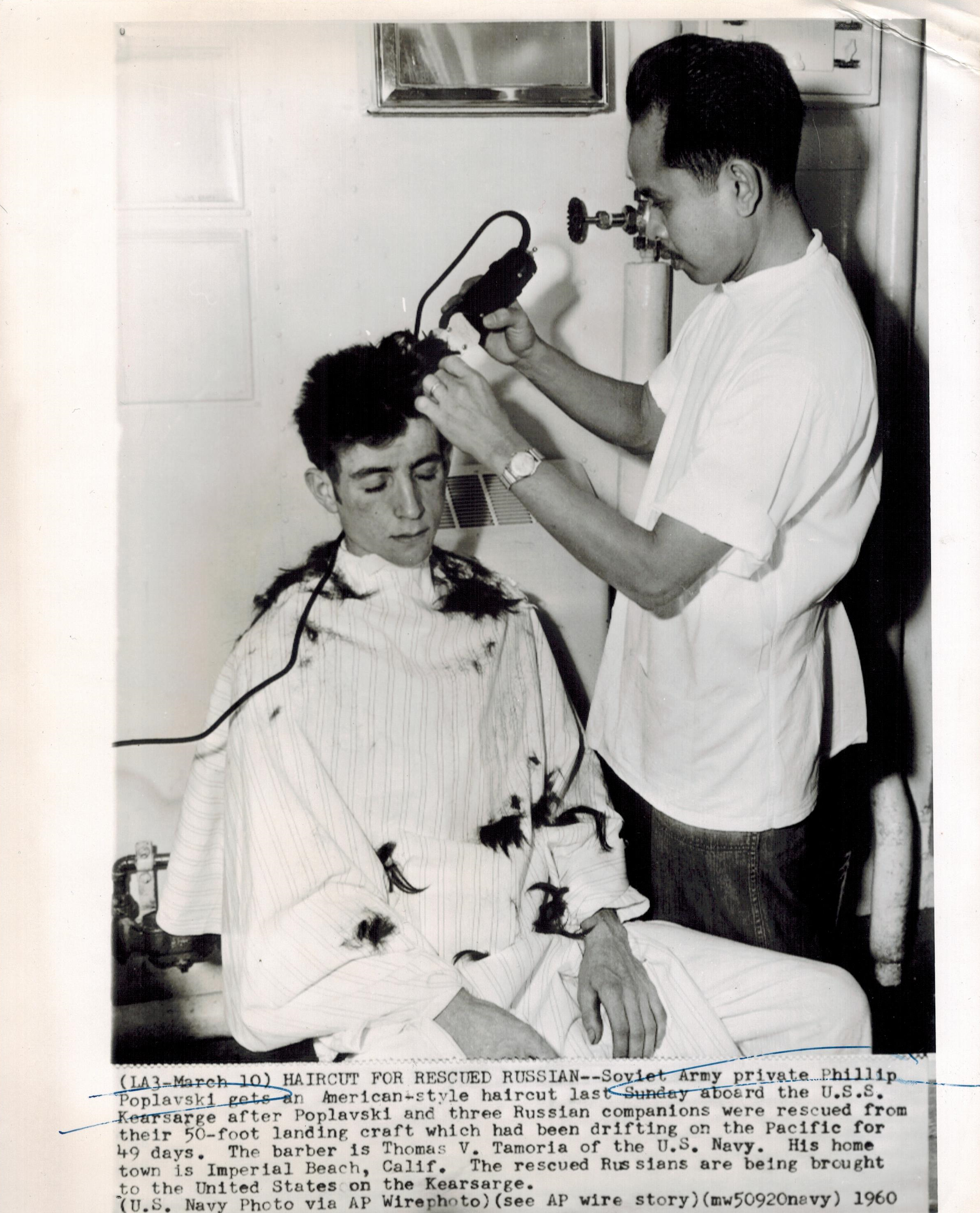 (LA3-March 10) HAIRCUT FOR RESCUED RUSSIAN--Soviet Army Private Phillip Poplavski gets an American-style haircut last Sunday aboard the U.S.S. Kearsarge after Poplavski and three Russian companions were rescued from their 50-foot landing craft which had been drifting on the Pacific for 49 days. The barber is Thomas V. Tamoria of the U.S. Navy. His home town is Imperial Beach, Calif. The rescued Russians are being brought to the United States on the Kearsarge. (U.S. Navy Photo via AP Wirephoto)(see AP wire story)(mw50920navy) 1960